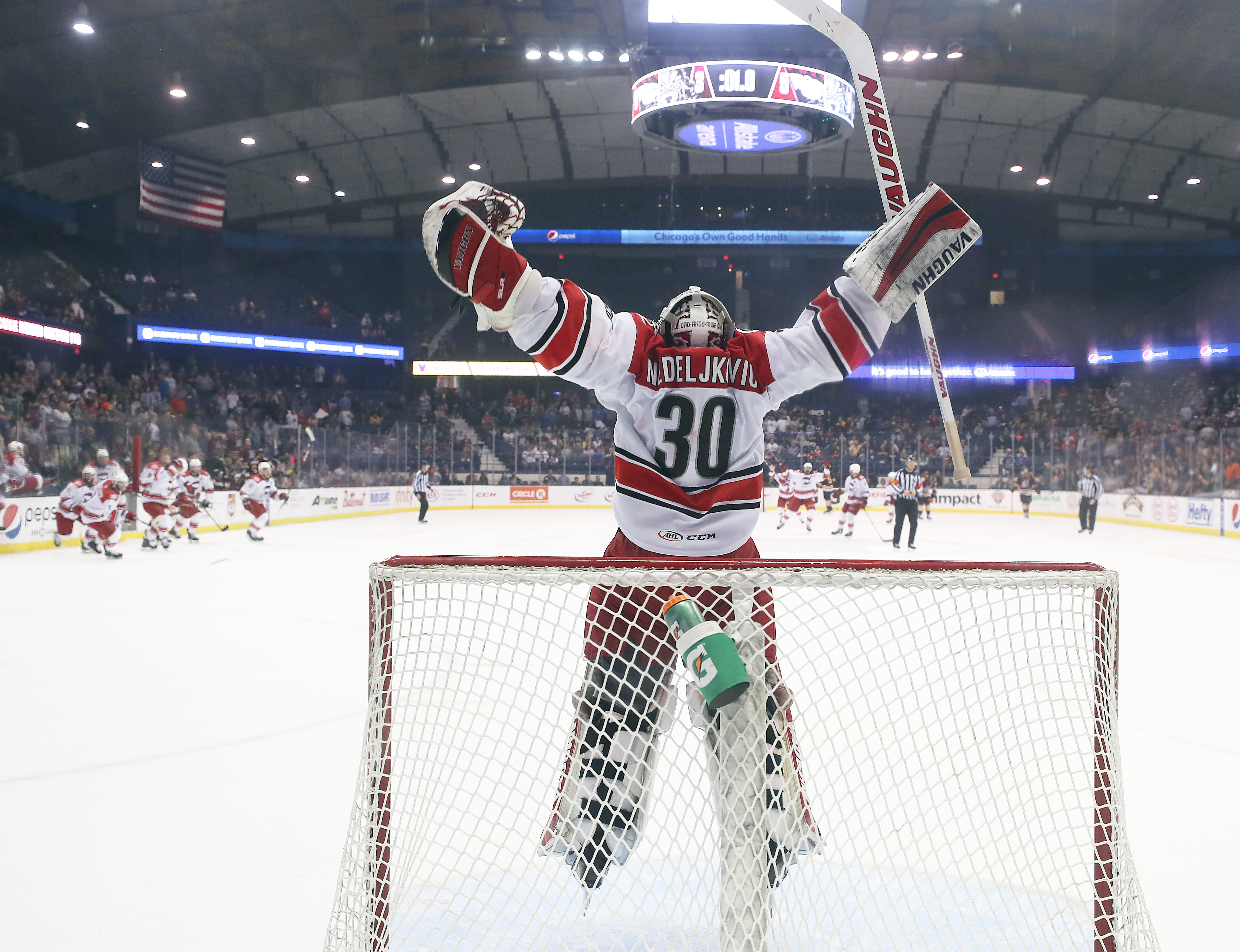 Photo: Gregg Forwerck/AHL